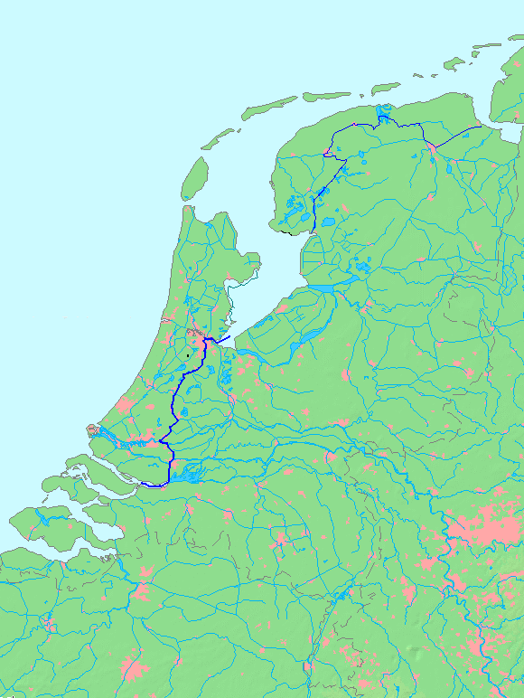 Staande Mastroute